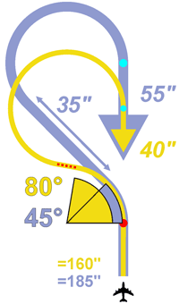 Procedure turn is a standard method for airplanes to turn back with holding exactly the same track line, without navigational aids. type 45 - turn left (or right) 45 degrees with rate one turn, then fly straight ahead for 35 seconds, turn right 225 degrees also with rate one and you are on the course. 55 seconds later you reach the initial point. Totally this maneuver takes approximately 185 seconds. type 80 - turn left (or right) 80 degrees with rate one turn, level wings and then turn right 260 degrees also with rate one. 40 seconds later you reach the initial point on the same line. Total time is about 160 seconds.